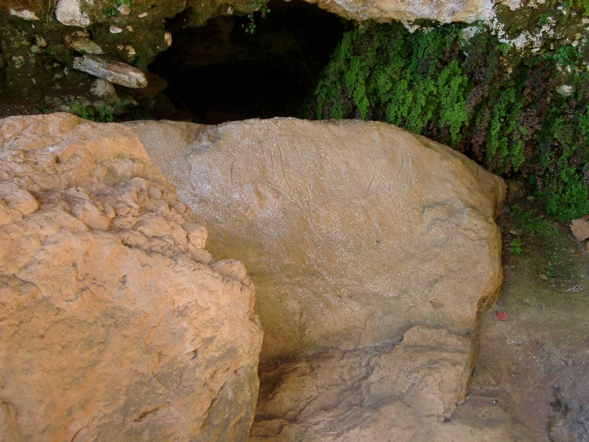 sgraffito of ox in 'Grotta del Romito'. Papasidero, Calabria, Italy